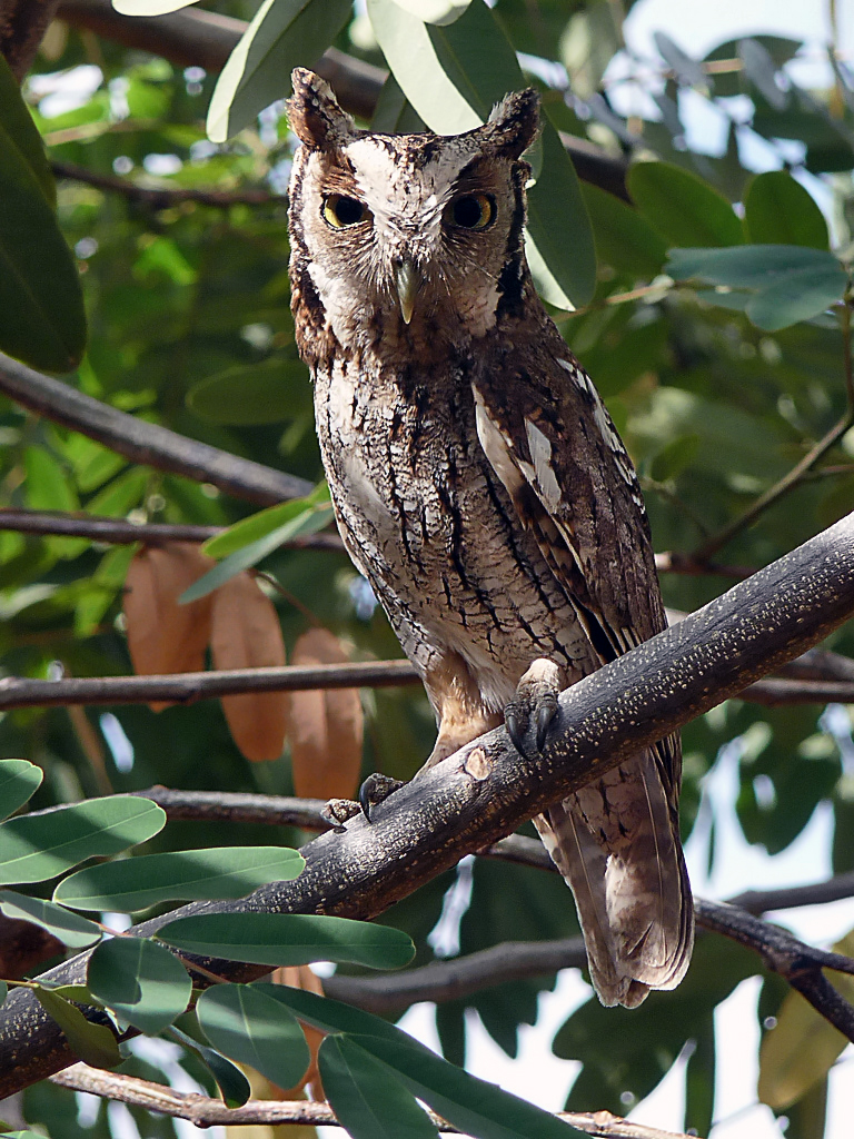 A Tropical Screech-owl in Ceará, Brazil.